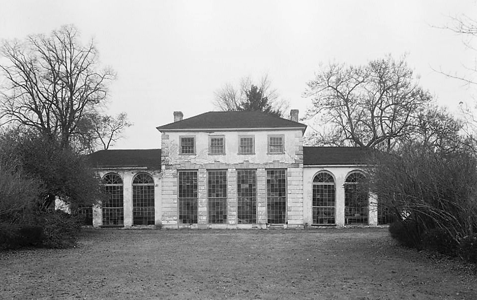 South elevation Wye House, Orangery, Bruffs Island Road, Tunis Mills, Talbot County, MD